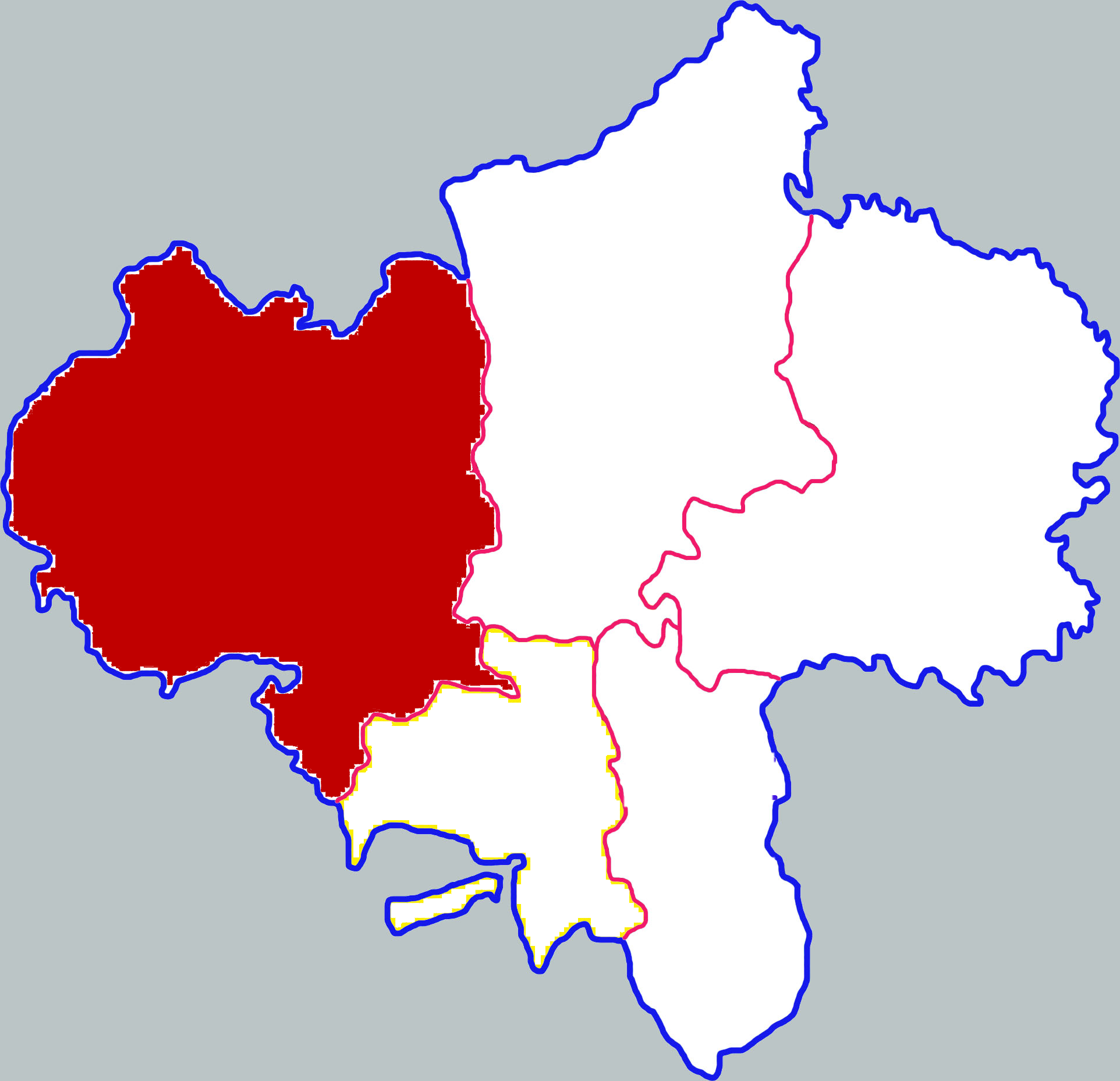 Location of Xiji county in Guyuan city, China